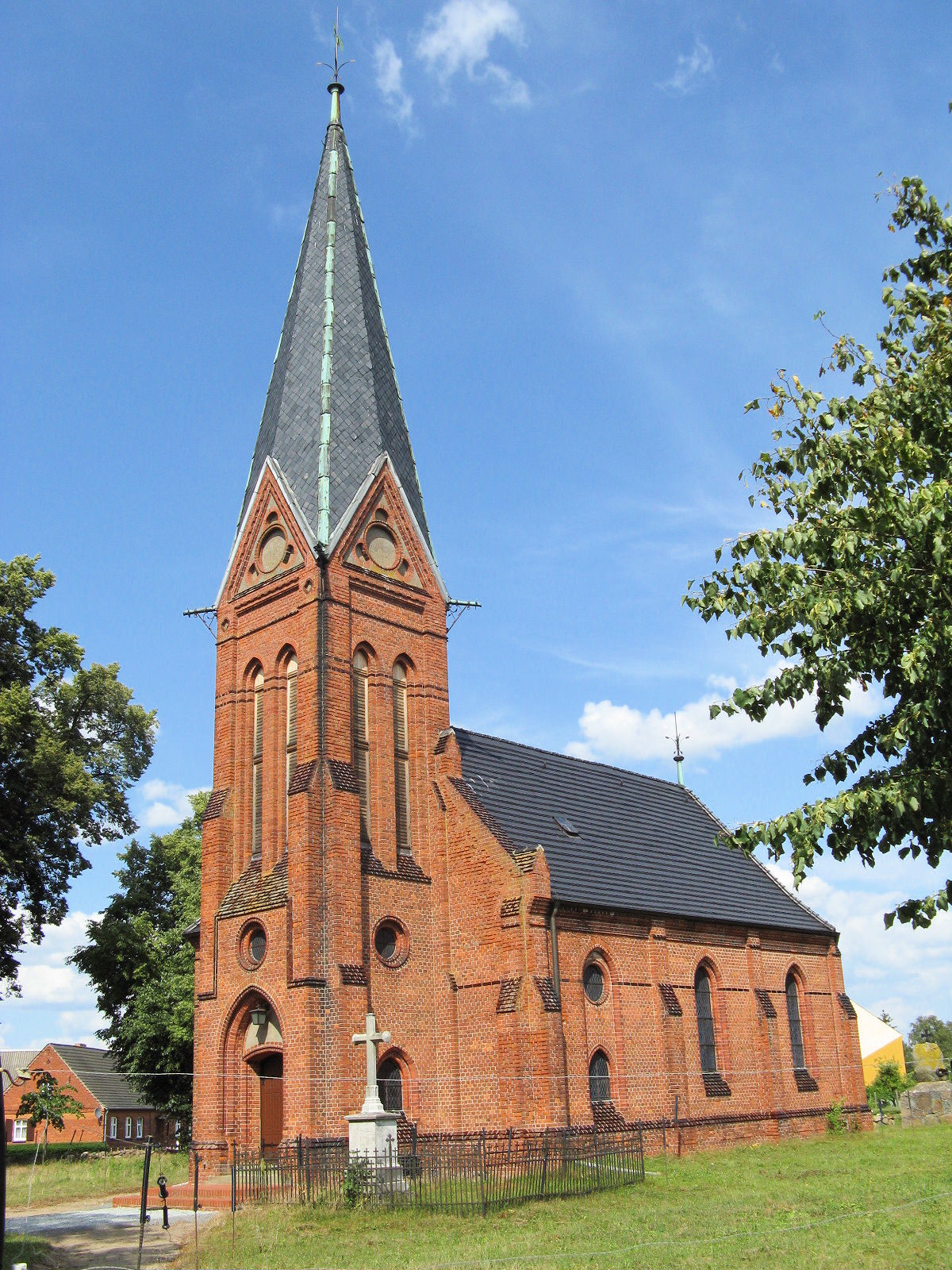 Church in Grabow, disctrict Mecklenburgische Seenplatte, Mecklenburg-Vorpommern, Germany